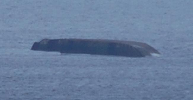 Photograph of the Captayannis (zoomed), a Greek sugar-carrying vessel that sank in the River Clyde, Scotland in 1974. This image was taken from the north side of the Clyde in Helensburgh.